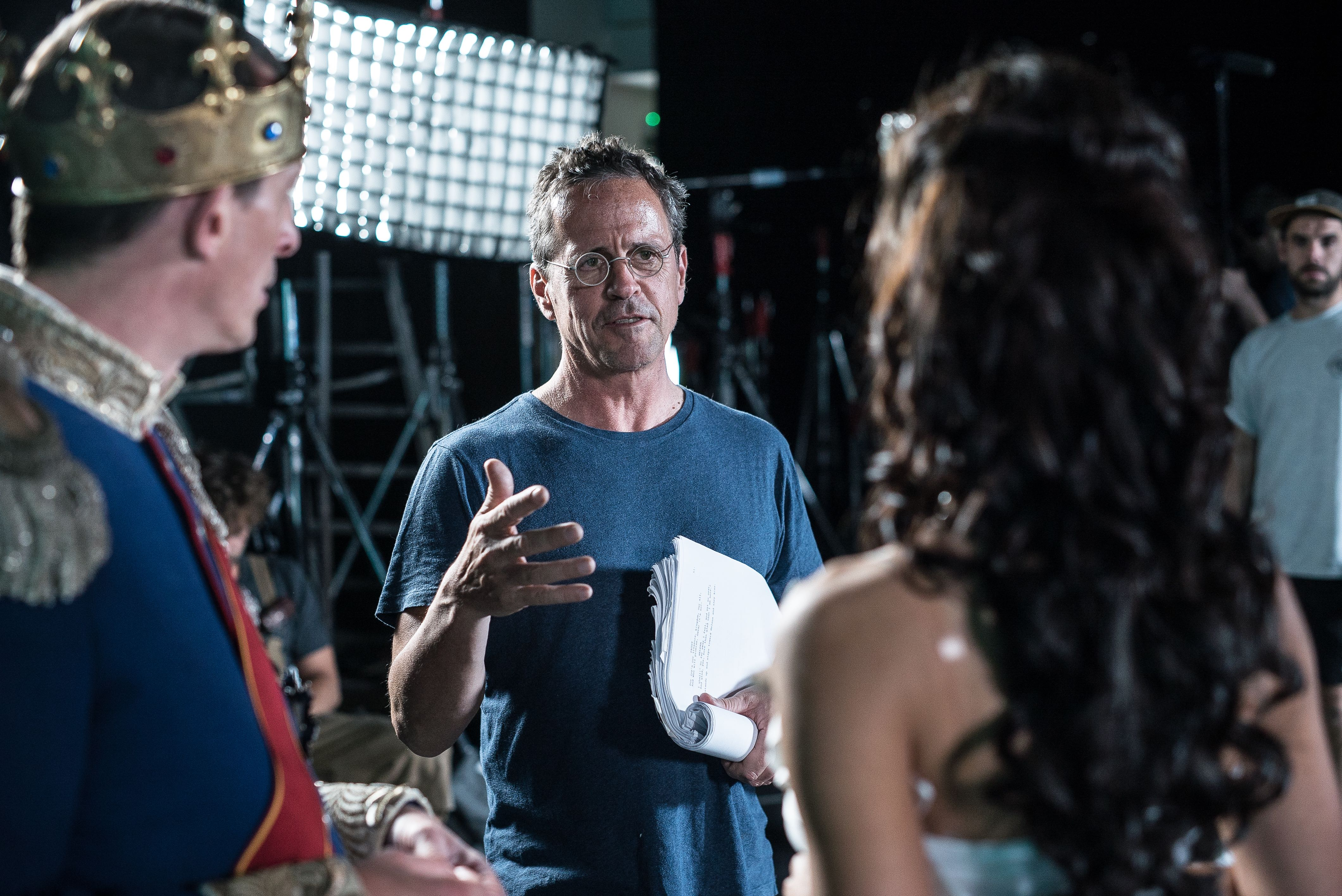 Philipp Humm holding a script while on The Last Faust film set